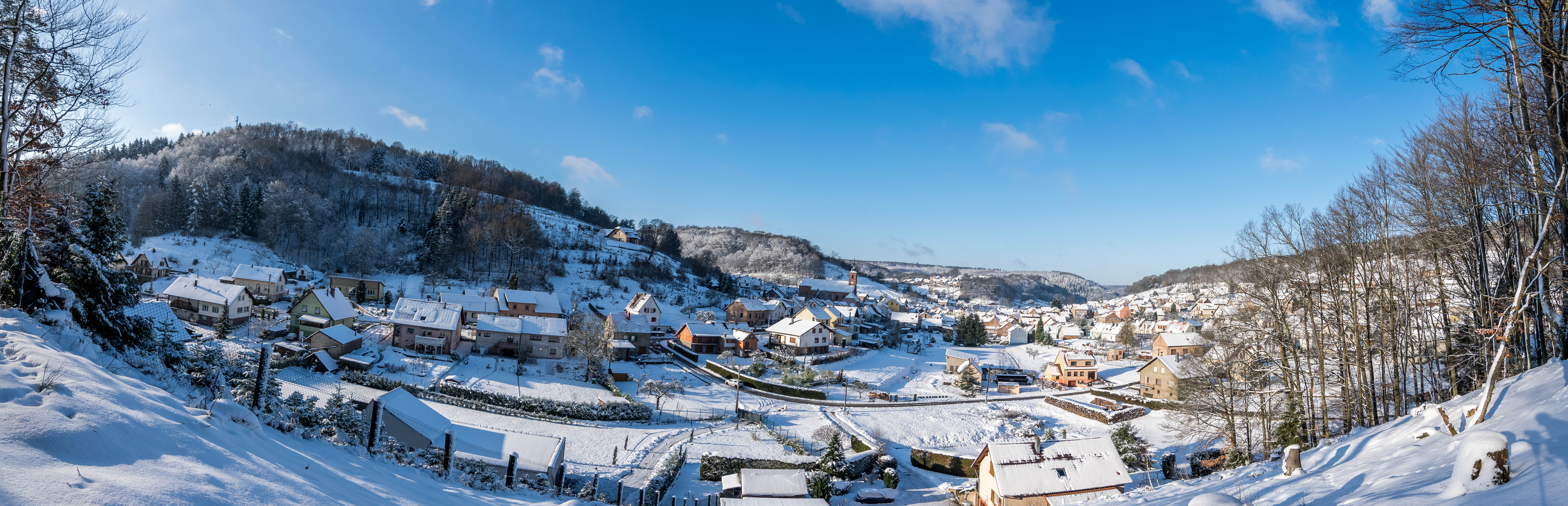 Panoramic photography of Soucht under the snow.